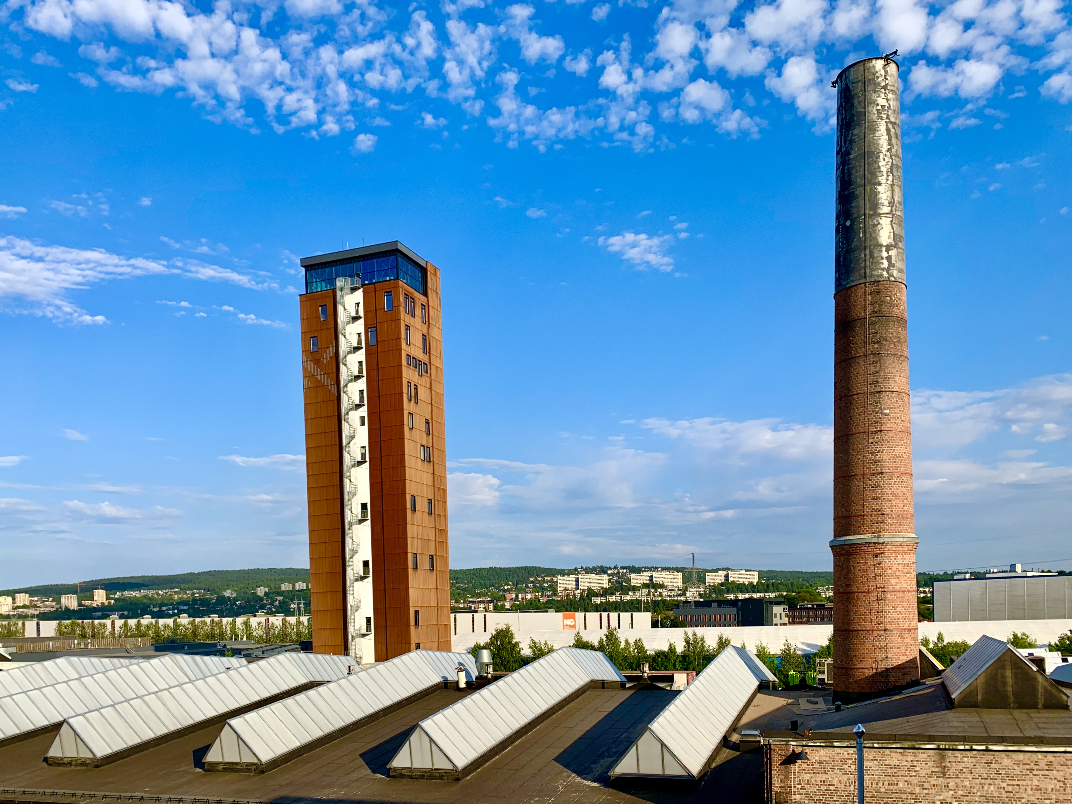 Kabeltårnet, Cable-tower seen from Kabelgata, Oslo